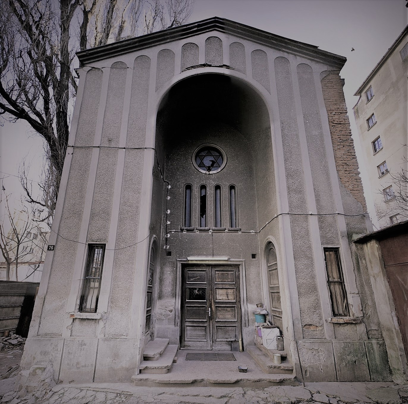 "Beth Hamidraș" Temple, Beit Hamidrash Synagogue, on 78 Calea Moșilor, Bucharest, 2011